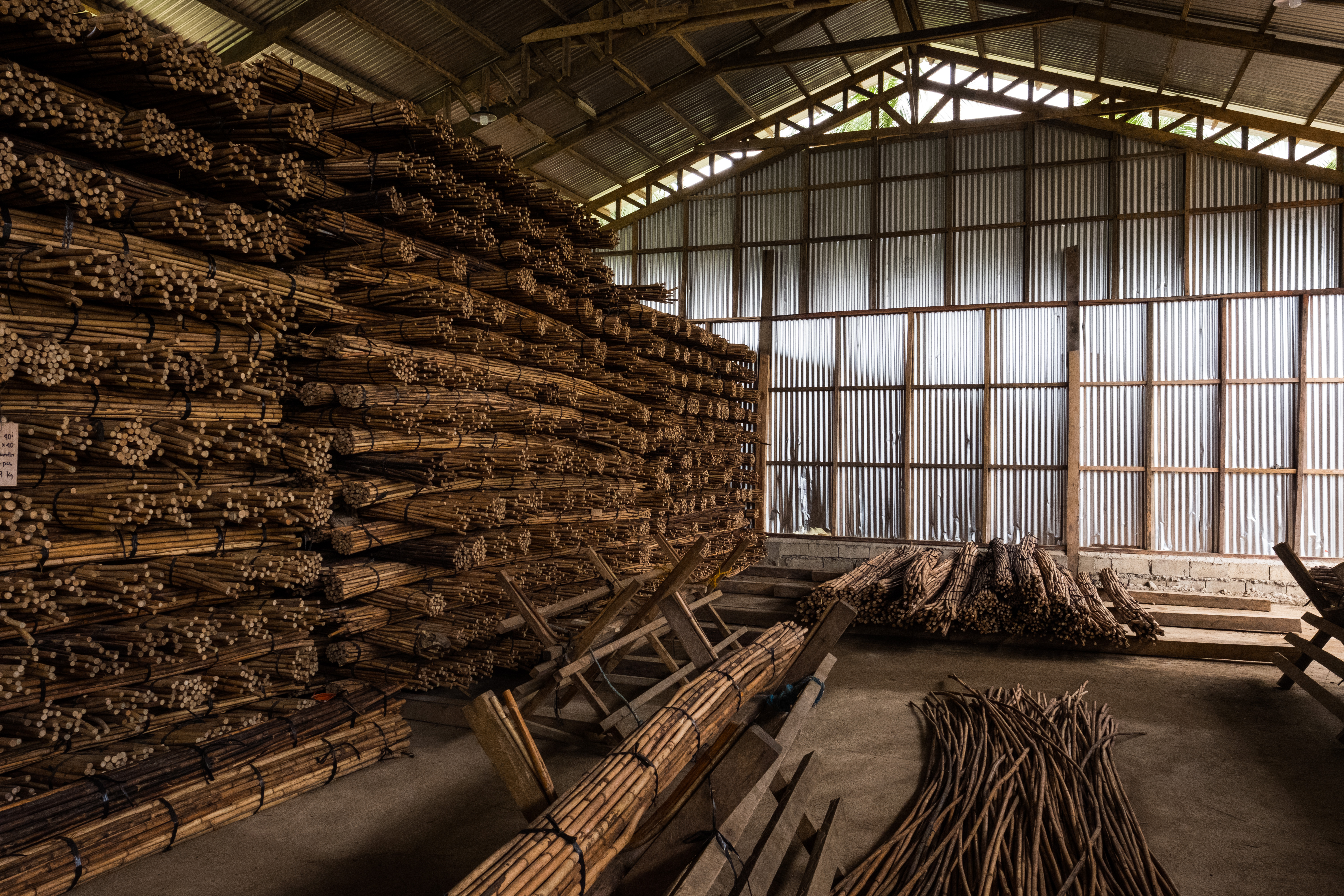 July 2017. Rattan is received at LGCT's (a trader) site, treated with hot diesel oil (for preservation), dried on racks outside, and then straightened by hand before being bundeled and stacked for shipment to China. Rattan is an important non-timber forest product (NTFPs) and represents the difficulties and uncertainties inherent in ascertaining sustainable extraction levels and impacts associated with wild harvesting. In general there has been little or no monitoring or management of wild rattan harvesting and little is known about ecological effects associated with extraction. Quezon, Palawan, Philippines. Photograph by Jason Houston for USAID